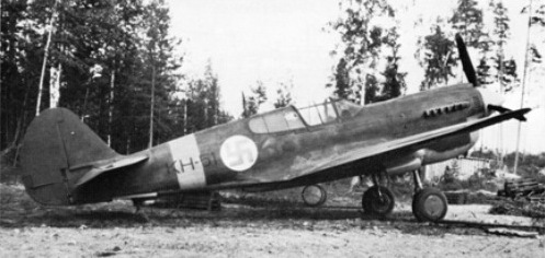 P-40M in Finnish markings in 1944